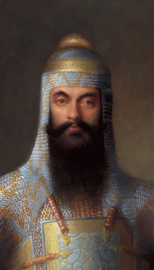 This is a full length oil portrait of the Maharajah Ranjit Singh, 80" x 52" oil on canvas. Completed in 2009 by the artist Manu Kaur Saluja. The portrait has a museum exhibition credit at the Royal Ontario Museum (Toronto), from Nov 28, 2009 through March 28, 2010. The painting depicts Ranjit Singh sitting on his golden throne within the walls of the Lahore Fort. He is in full dress armor, with the Koh-i-Noor diamond on his right arm in it's original setting.